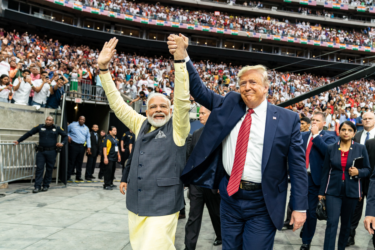 President Donald J. Trump holds hands with Prime Minister Narendra Modi of India as they take a surprise walk together Sunday, Sept. 22, 2019, around the NRG Stadium in Houston, Texas. (Official White House Photo by Shealah Craighead)